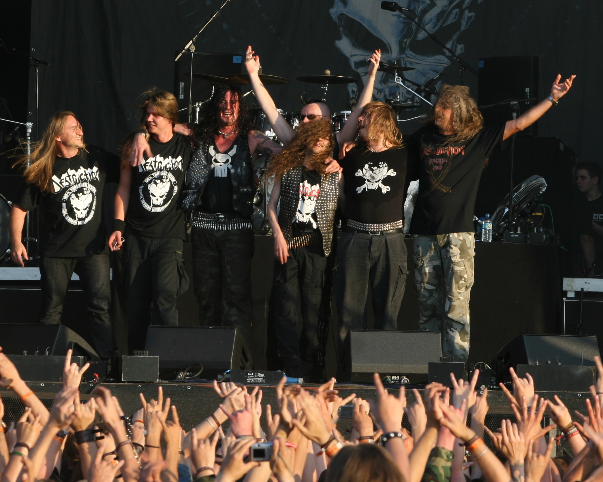 This was Destruction in one of their finer moments, ending off the Wacken-Open Air Festival 2008, in Germany. It was a pleasure photographing the entire festival and this being one of Destructions biggest shows to date, makes it an honour to release this to the public. I hope those who listen to heavy metal and love the band Destruction enjoy this photograph. I wish for those who attended this festival to reminisce in complete metal delight. The photograph was taken by Caroline Lauder, of LOUDER IMAGES.